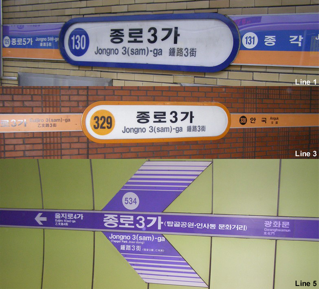 Jongno 3-ga Station